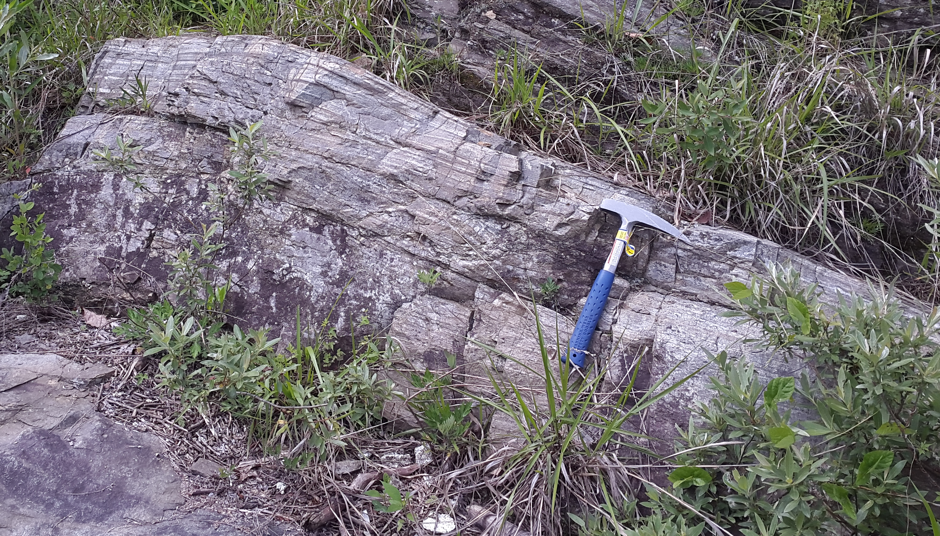 Schist outcrop showing fine schistosity. Yonchon county, Kyonggi province, South Korea.